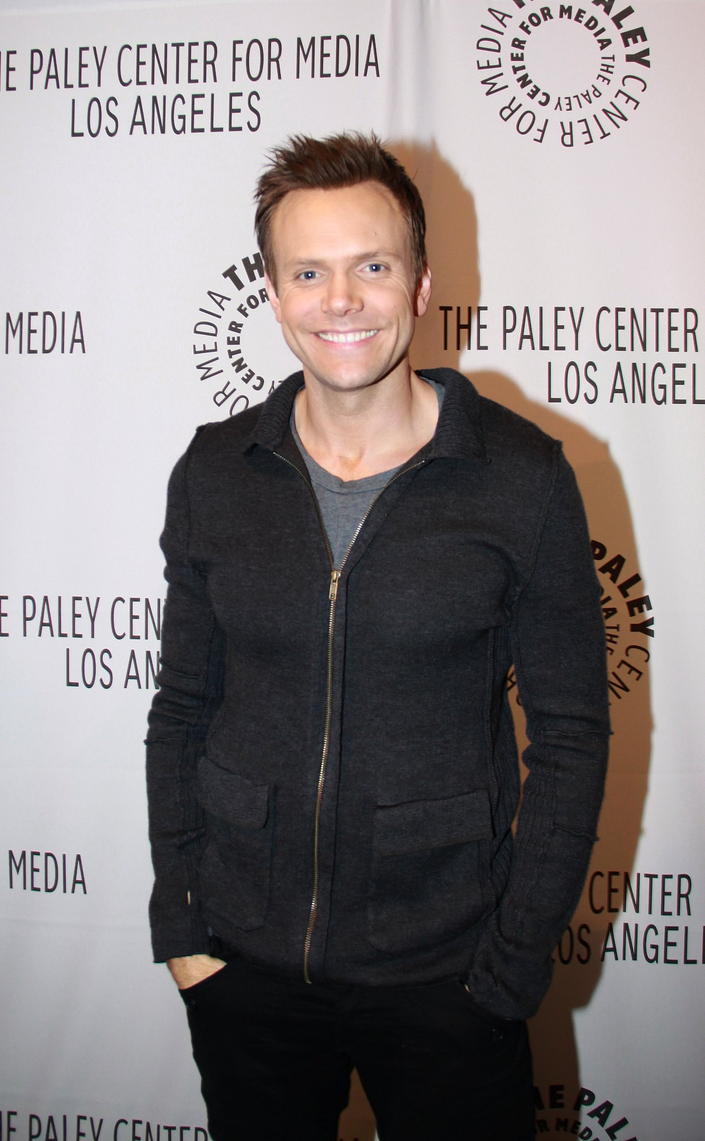 Joel McHale at PaleyFest2010's "Community" night at the Saban Theatre on Wednesday, March 3rd, 2010